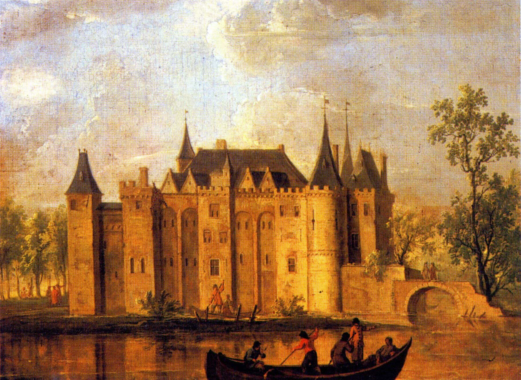 Castle of Gouda